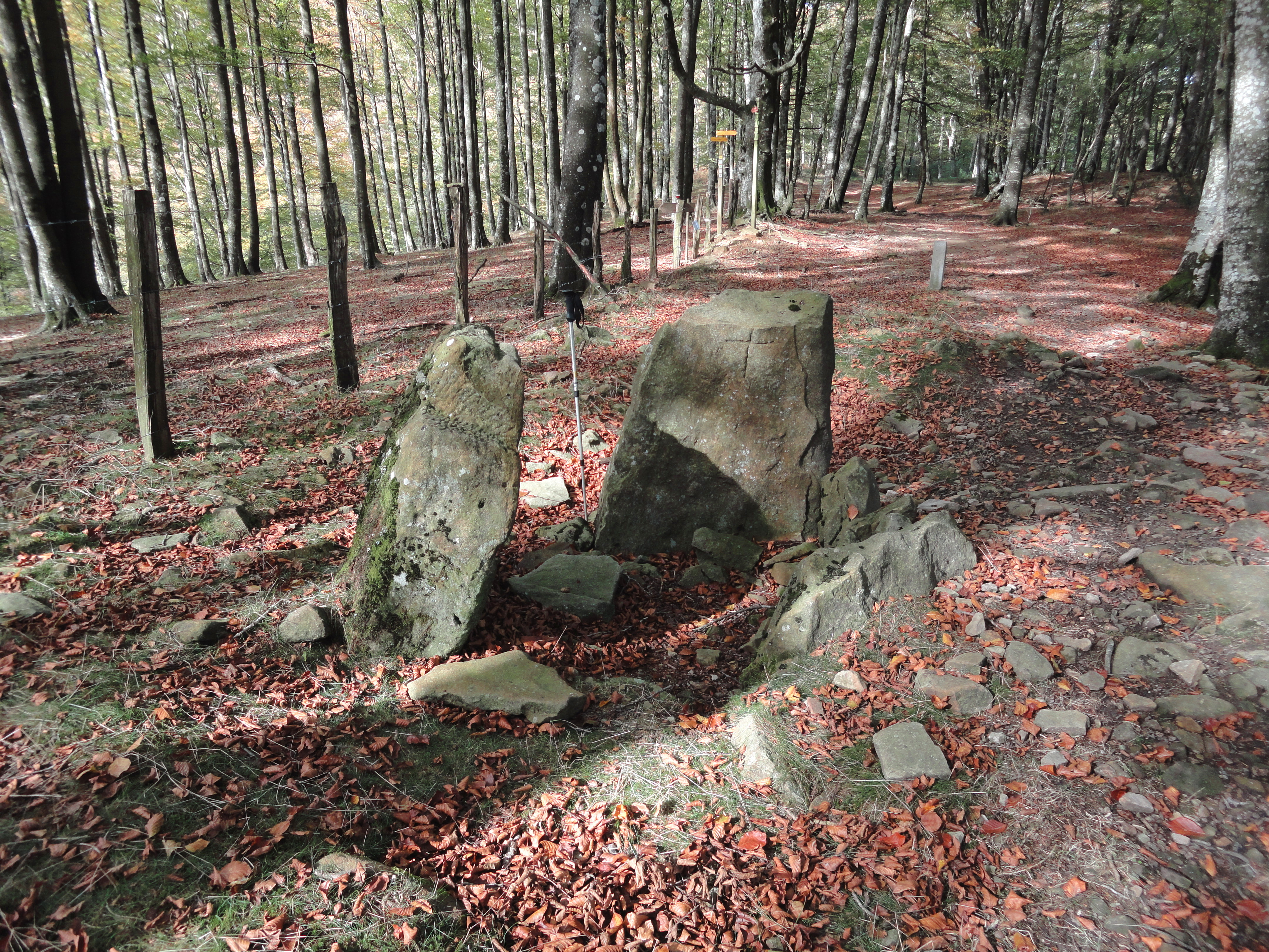 Bernoa dolmen